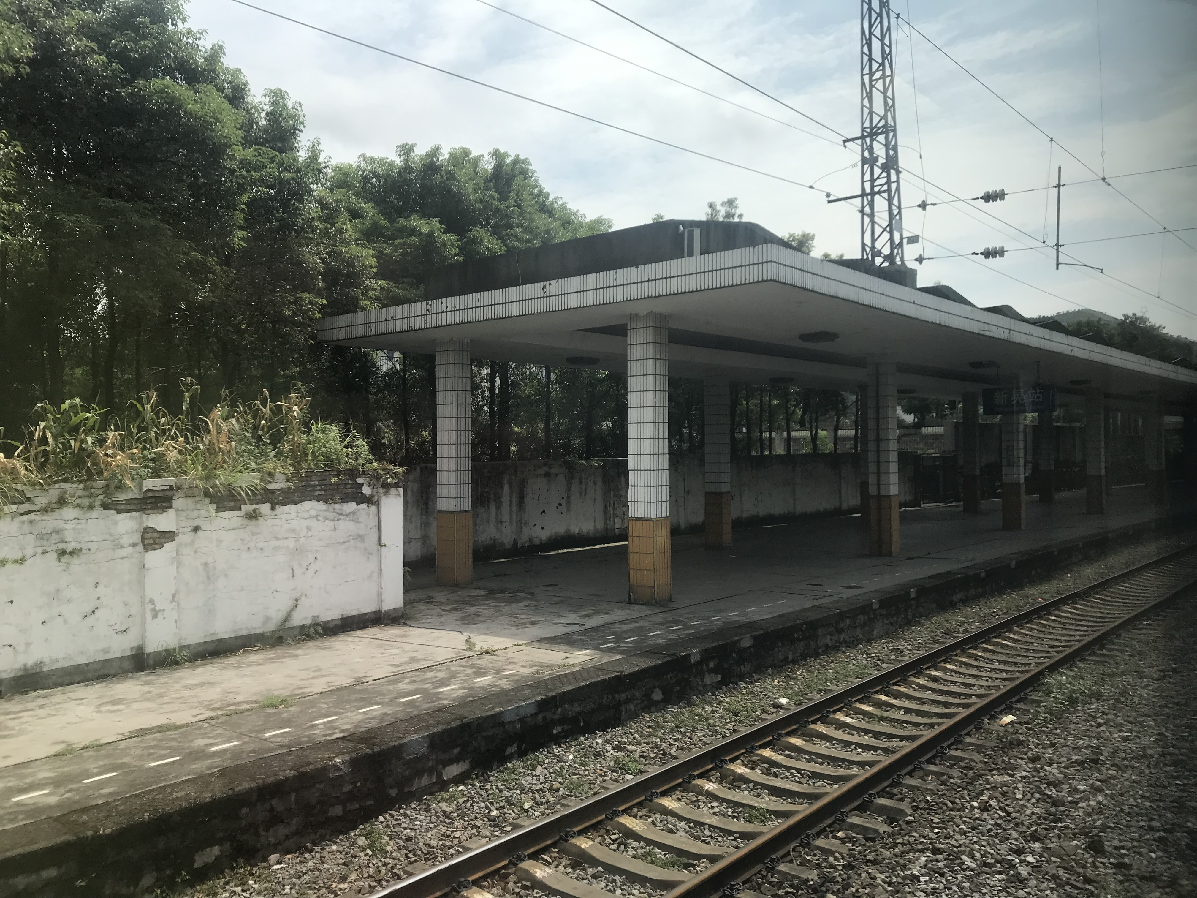 Last stop of GRGC...